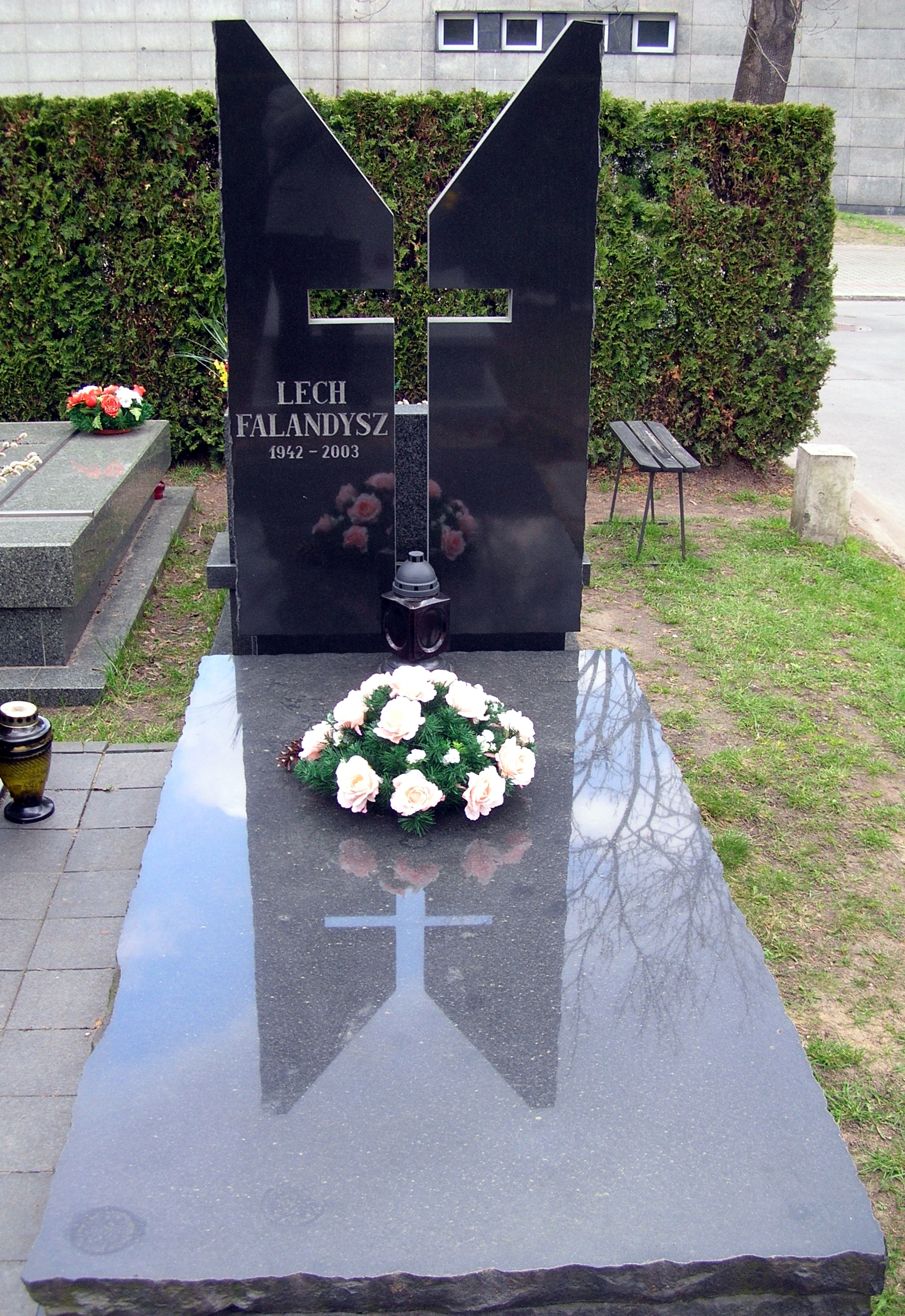 Tomb of Lech Falandysz